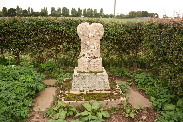 The Elloe Stone Stone marking the Saxon meeting place of the Court of the Wapentake. The inscription reads "Erected in Anglo-Saxon times to indicate the Meeting of the Hundred of Elloe Courts. Presented to the Moulton Parish Council by F.Dring Esq. (Landowner) and mounted here by public subscription on June 22nd 1911, the day of the Coronation of George V"